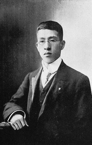 Kinichi Komura